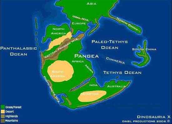 Physical map of the supercontinent Pangaea, 237 million years ago